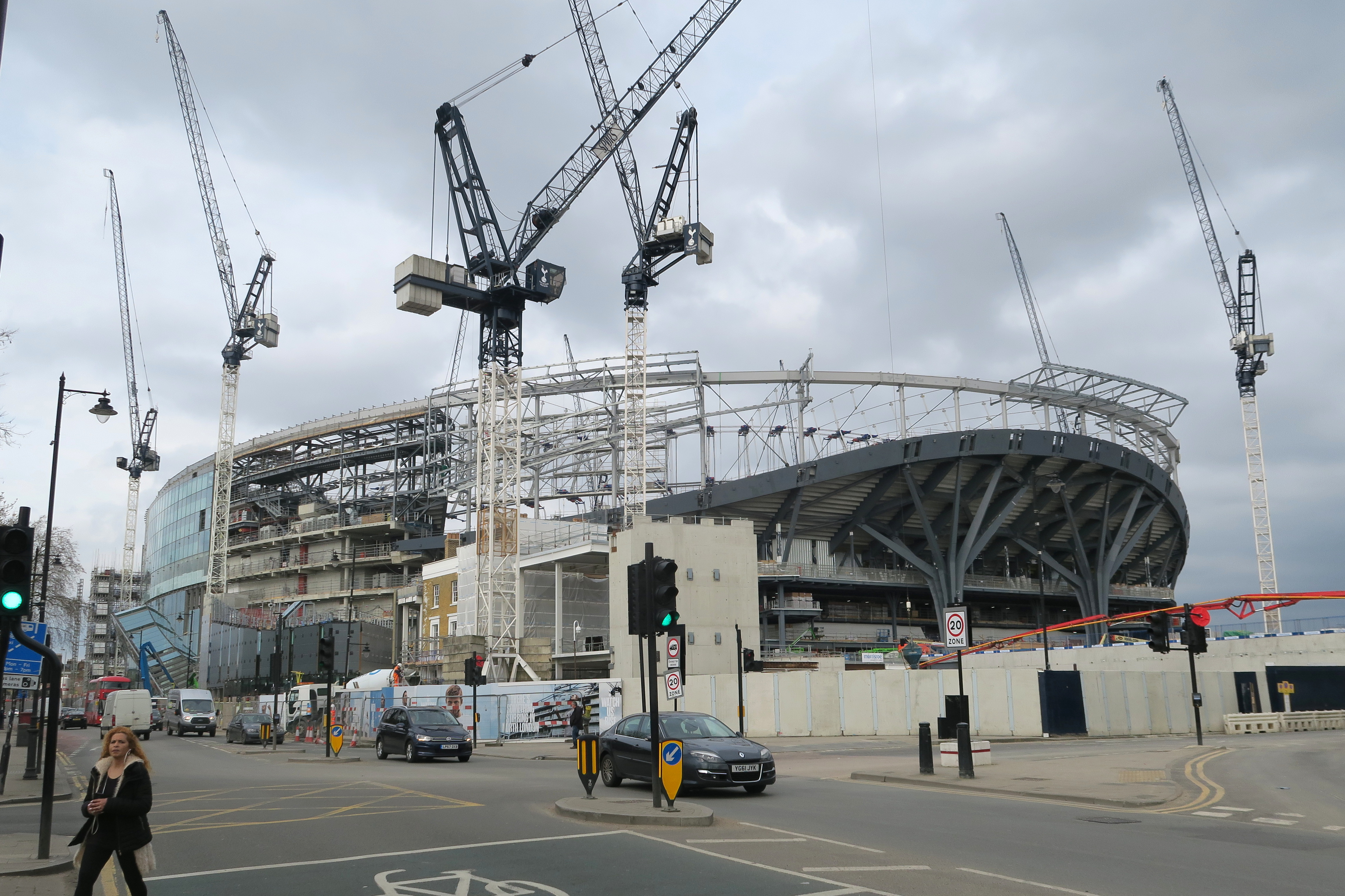 Construction of Tottenham Hotspur new stadium - view from High Road April 2018